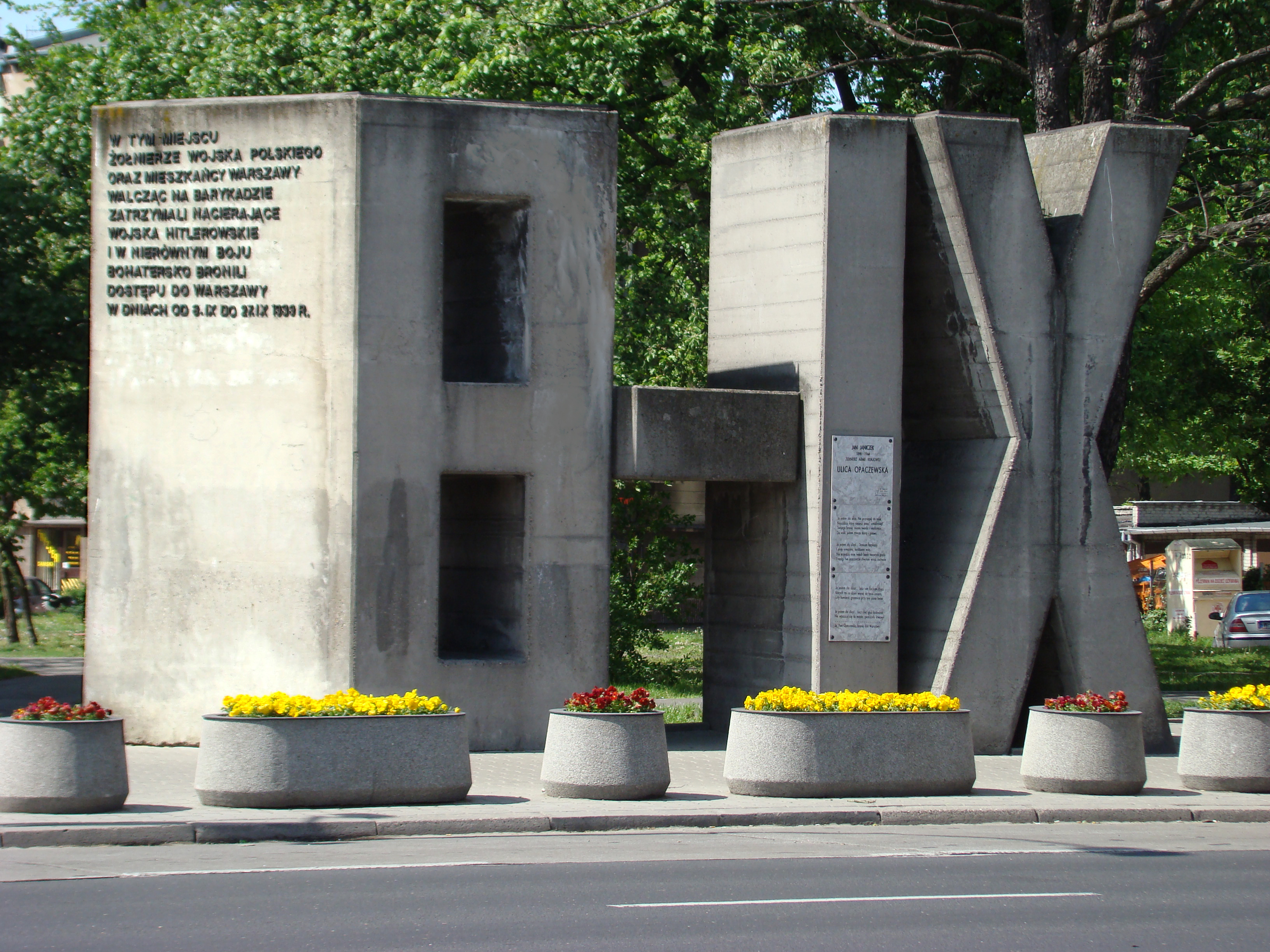 War memorial "Warsaw barricade 1939"